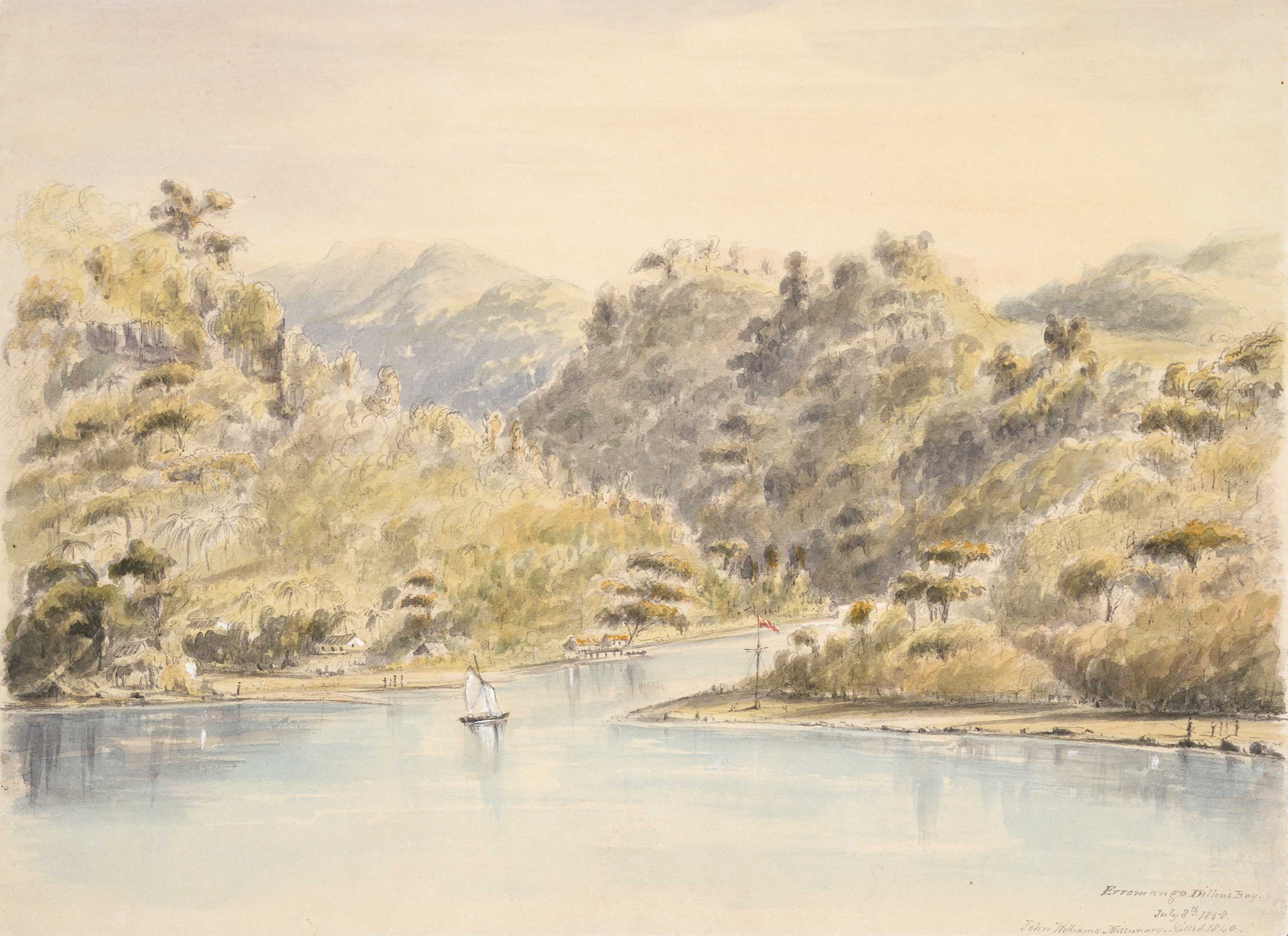 Erromango, Dillon's Bay. July 8th 1858. John Williams, Missionary, killed 1840. By Thomas Bent. Shows a view looking from the water towards the shore of Erromango Island at a point where a river flows out from betwenn wooded banks and background hills. There is a sailing boat at the river's outlet, a flag flying on a pole on the shore beside the outlet, and a few houses on the far bank. A group of figures stands at the far right. Site of missionary John Williams death in 1839, in the colonial New Hebrides (present day Vanuatu). 1 Watercolor painting, 210 x 288 mm. Reference Number: A-282-024.